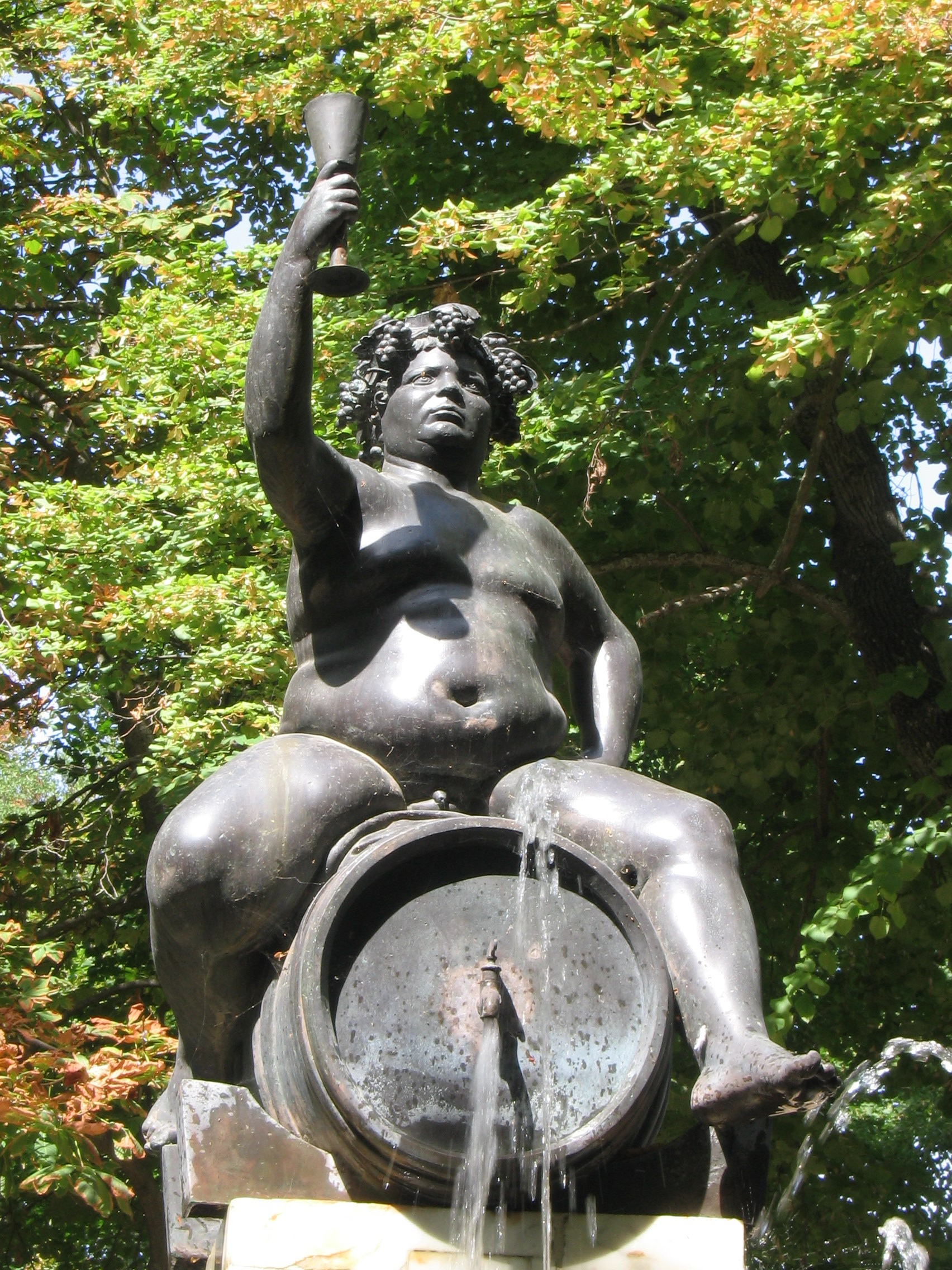 Detail of Bacchus's Fountain of the Island's Garden of Aranjuez.